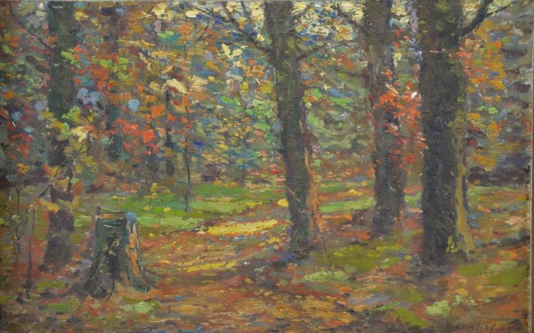 Autumn by Robert Henry Lindsay (1868-1938). Oil on board. Royal Canadian Academy, Montreal, signed and dated 1913. 19 cm x 29 cm.